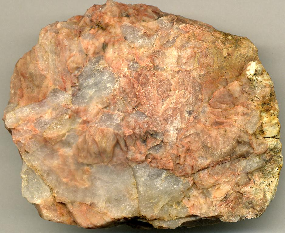 Hand specimen of Alaskite (leucogranite) from the Mount Evans Batholith. It is made of pinkish potassium-feldspar and whitish-grey quartz. It is 1.44 billion years old and was taken from near the summit of Mt. Evans, Clear Creek County, west-south-west of Denver, Colorado, USA.